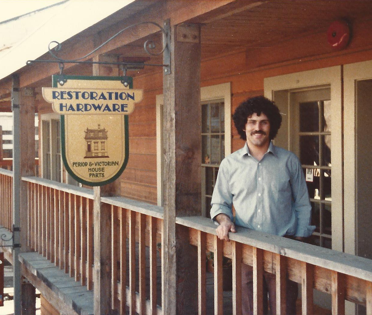 Steven Gordon at The Original Restoration Hardware Headquarters in Eureka, CA